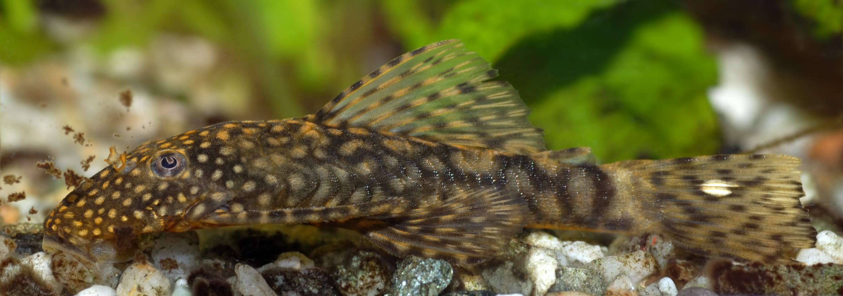 This image shows a female freshwater fish of the species Ancistrus dolichopterus.